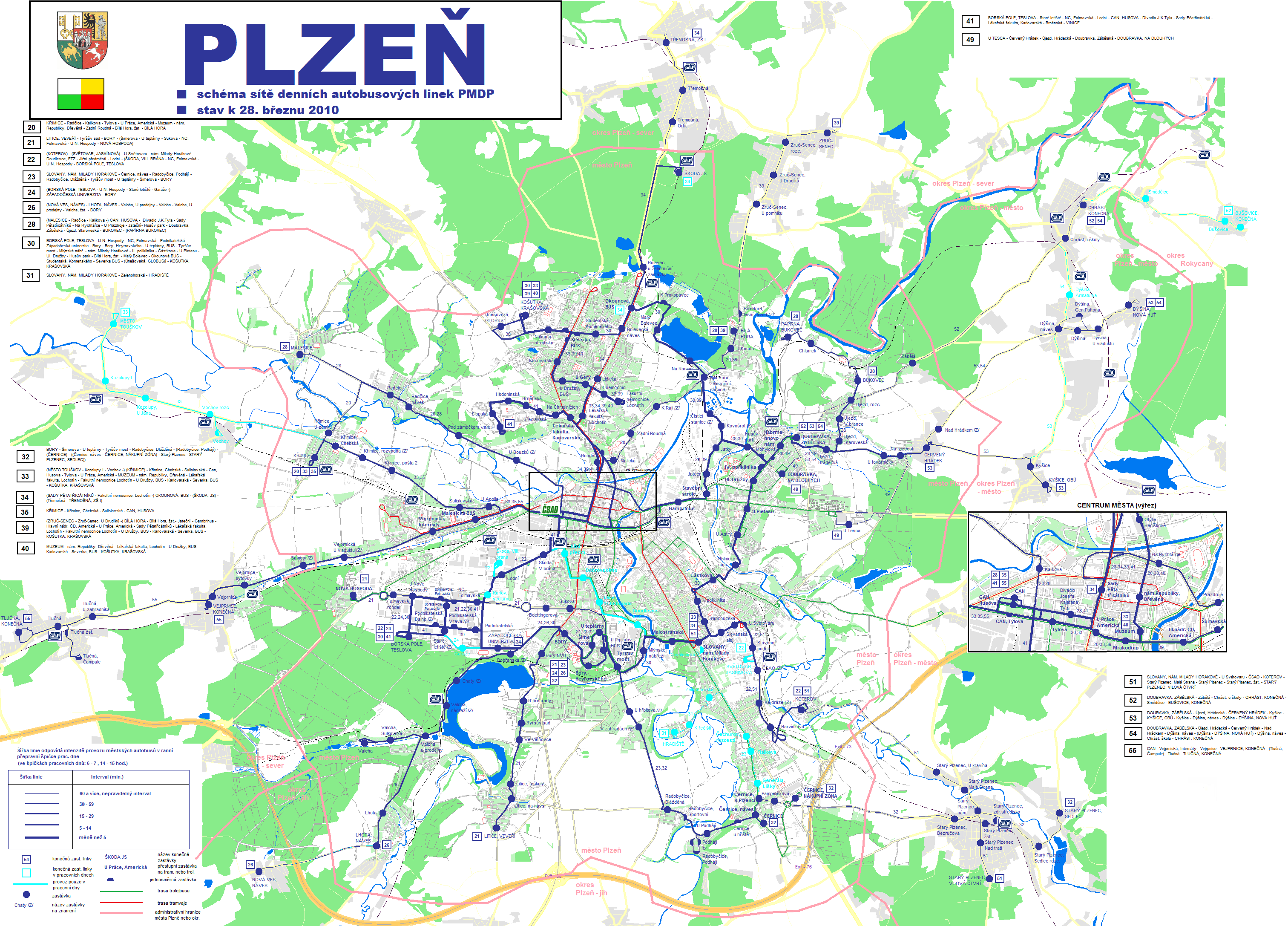 Map of city bus net in Plzeň